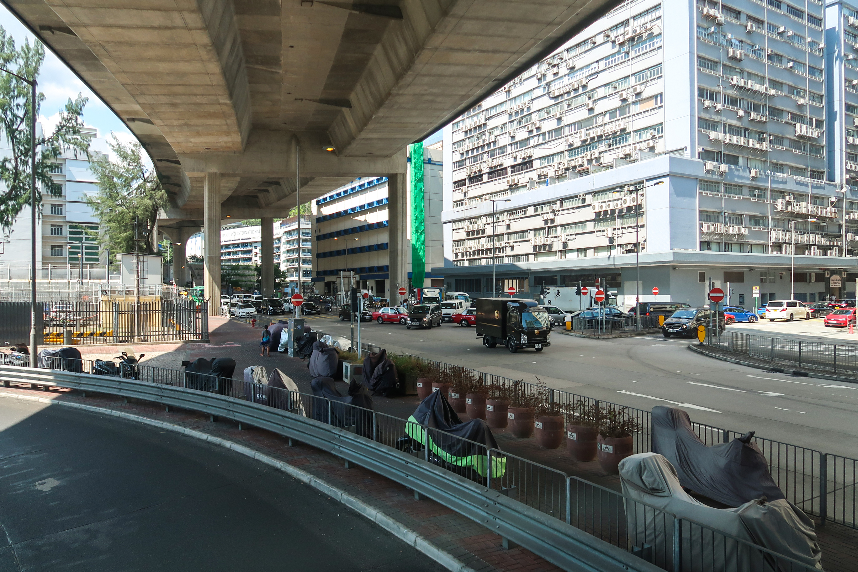 Butterfly Valley Road